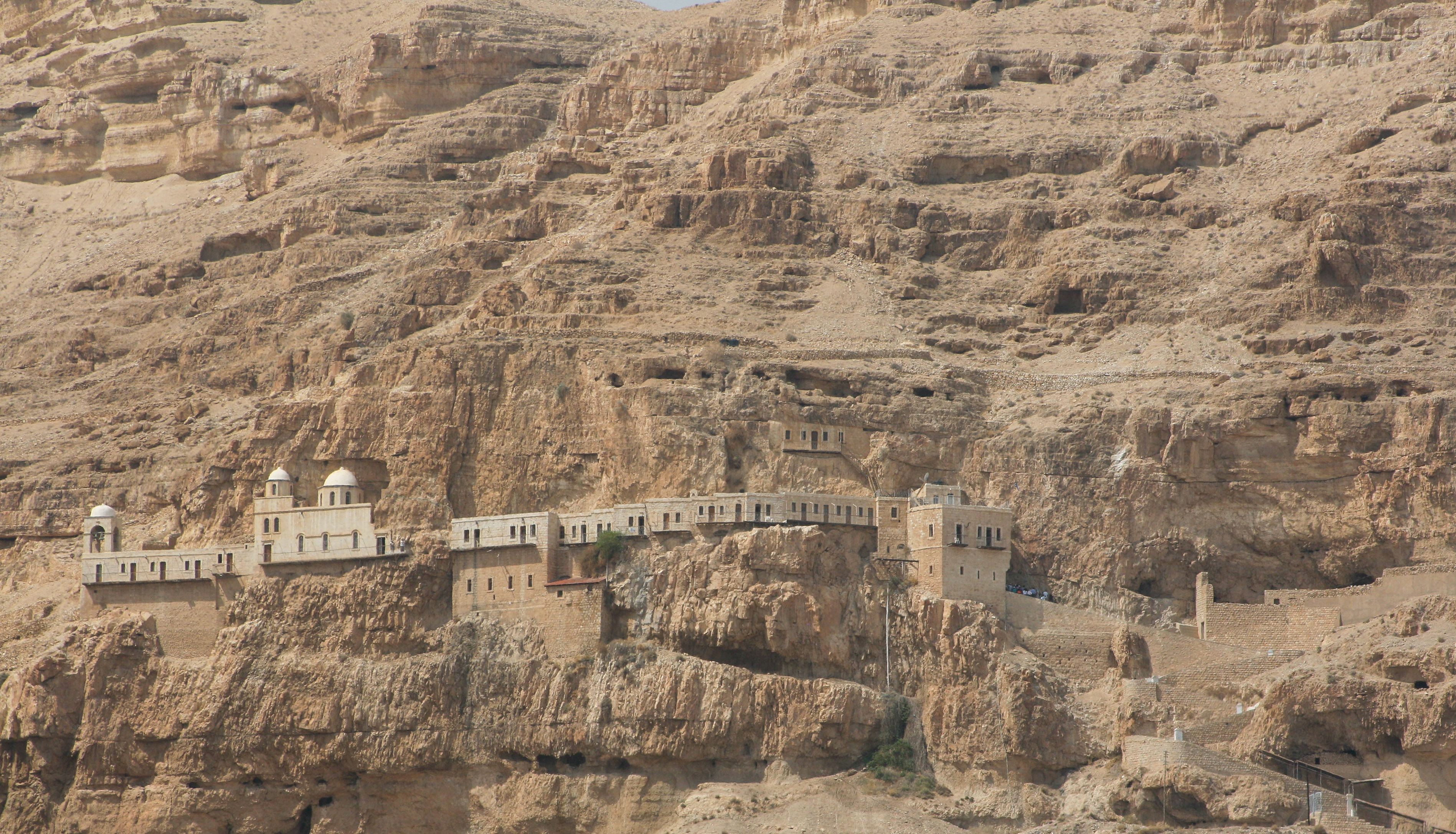 Monastery of the Temptation, Jericho, Palestine